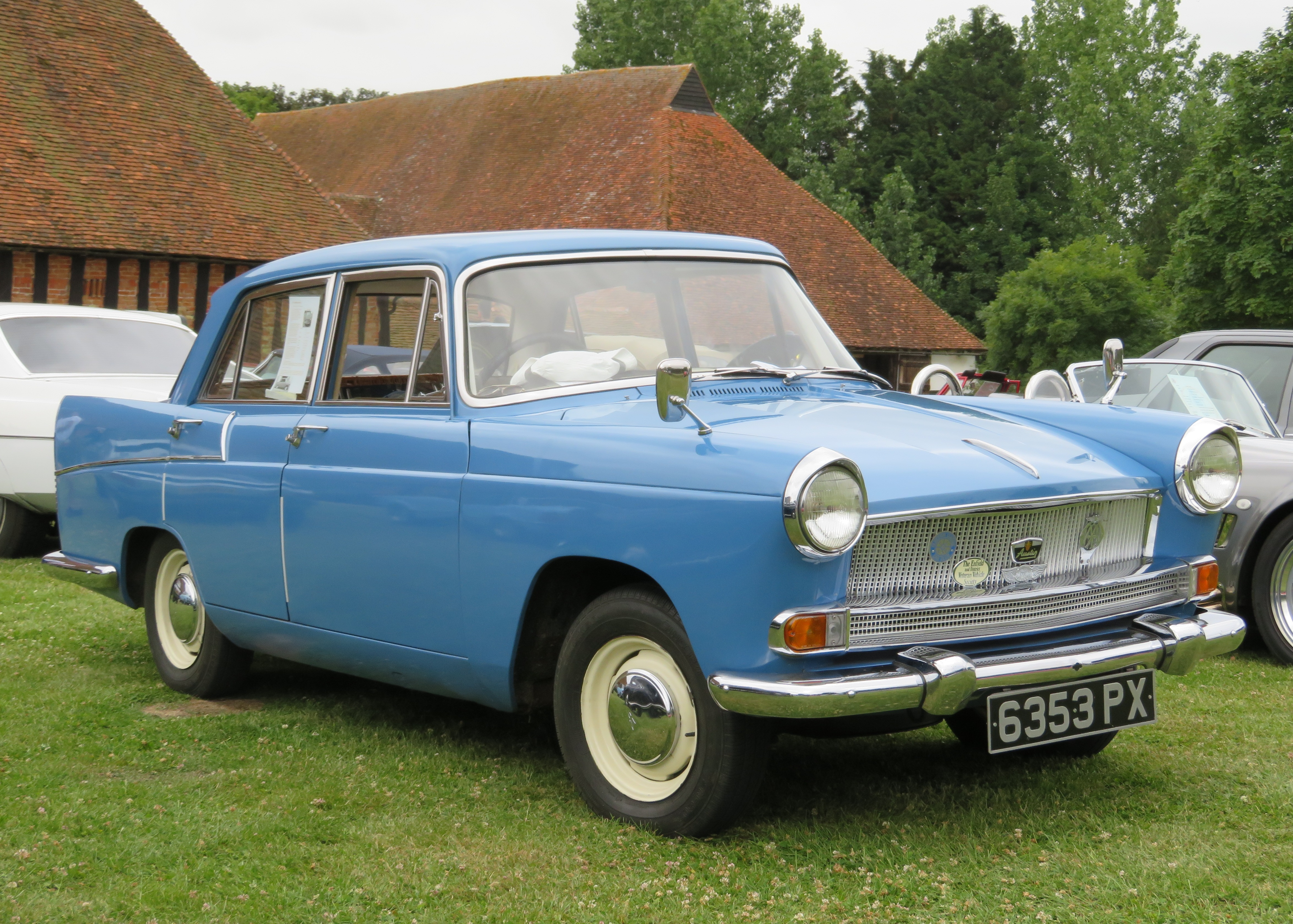 Austin A55 Cambridge (Farina)